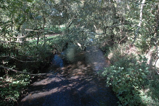 Avon Water, Wainsford Road, Pennington